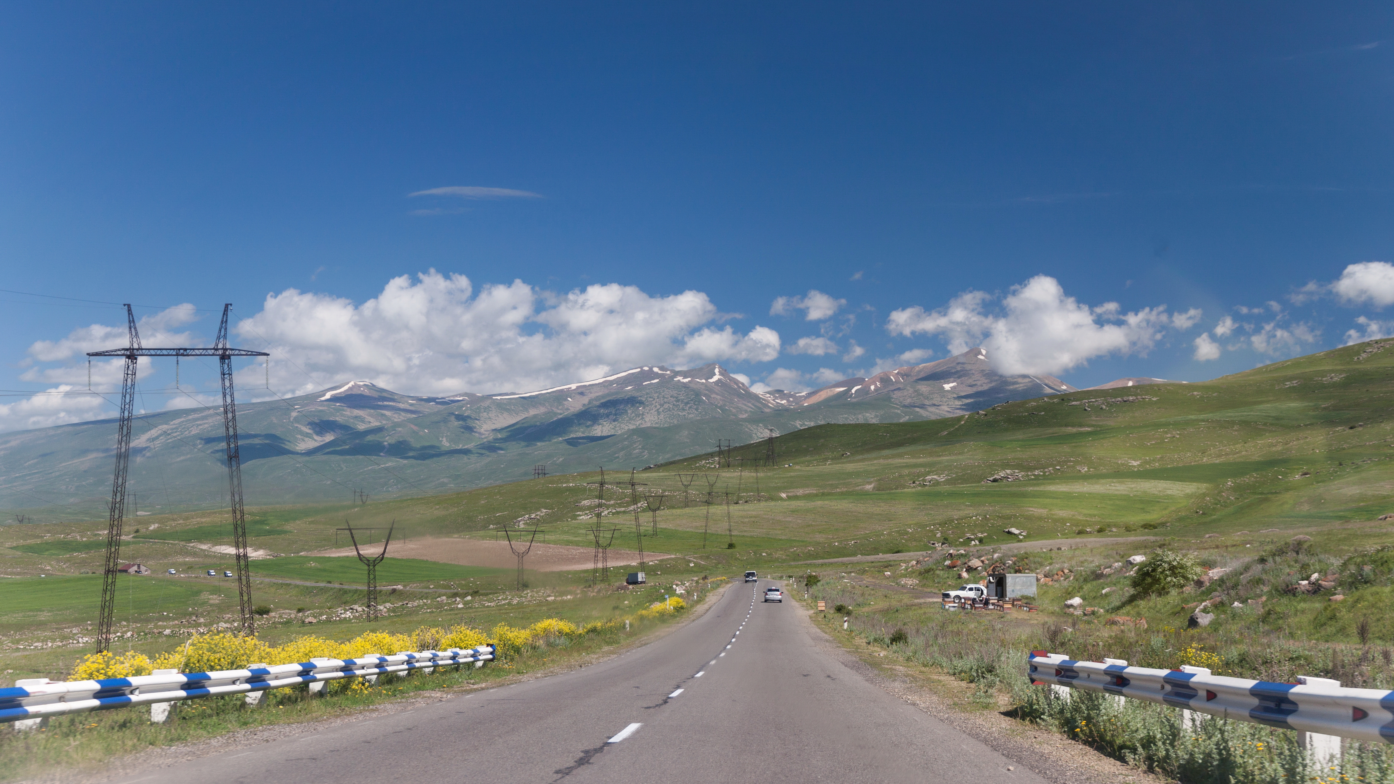 The landscape seen from the M2 road between Goris and Shaki. Syunik Province, Armenia.